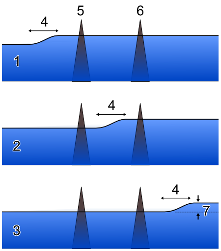 Geostrophic_current (Kuroshio Current's sea water level fluctuation)